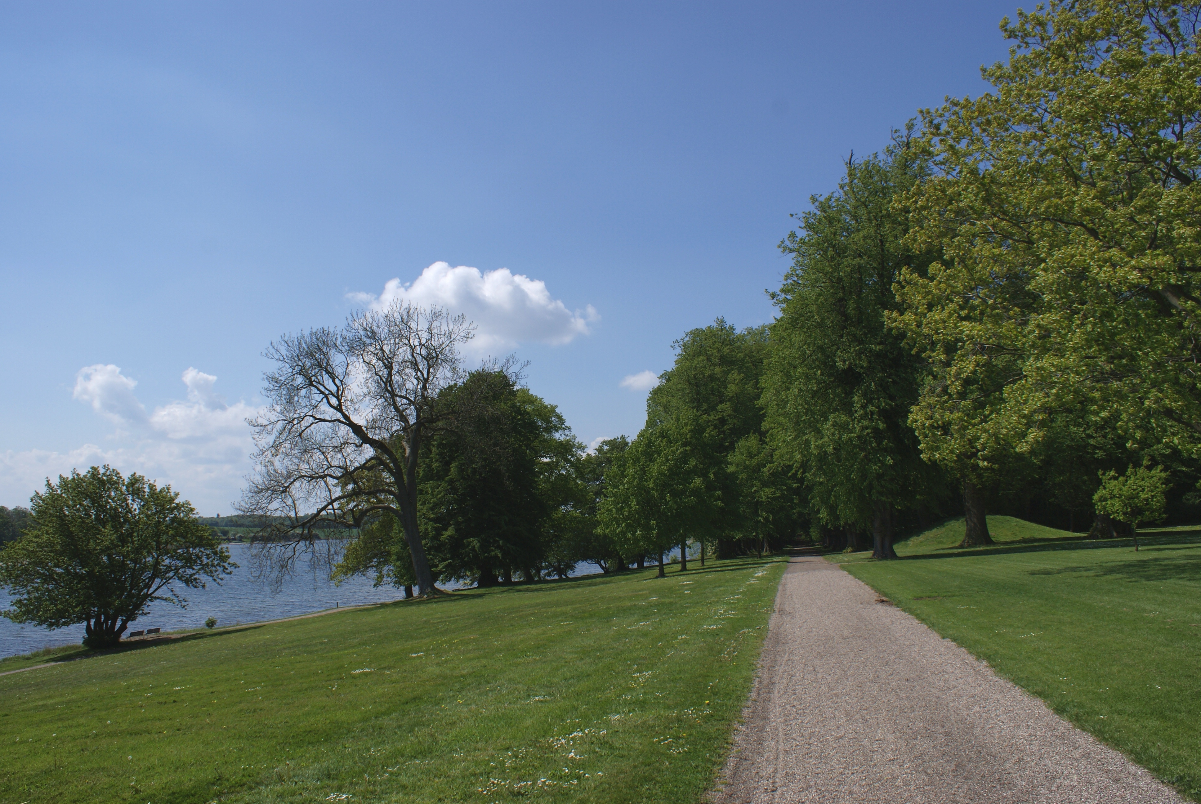 Gardens of Augustenborg Palace